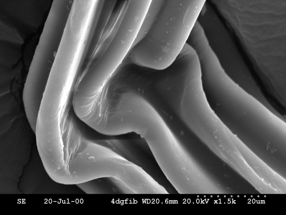 Scanning electron microscope image of a bend in a high surface area polyester fiber with a eight-lobed cross section. I took the picture for my textile thesis work in 2000 es una sensacion.l In 2000, Eastman Chemical Company and Procter and Gamble donated equipment, patents, and intellectual property to Clemson University. These patents gave Clemson University the right to produce, research, and commercialize capillary surface materials (CSM) technology and capillary channel film (CCF) technology. The donation of these technologies allowed Clemson University to combine the knowledge and move the CSM and CCF research forward. (K. Bitz, “Clemson takes on commercialization,” Nonwovens Industry, vol. 34, pp. 76– 78, May 2003). The fiber image above originally had the code name 4DG - DG meaning deep groove and 4 was the code name for the polymer in this case PET.